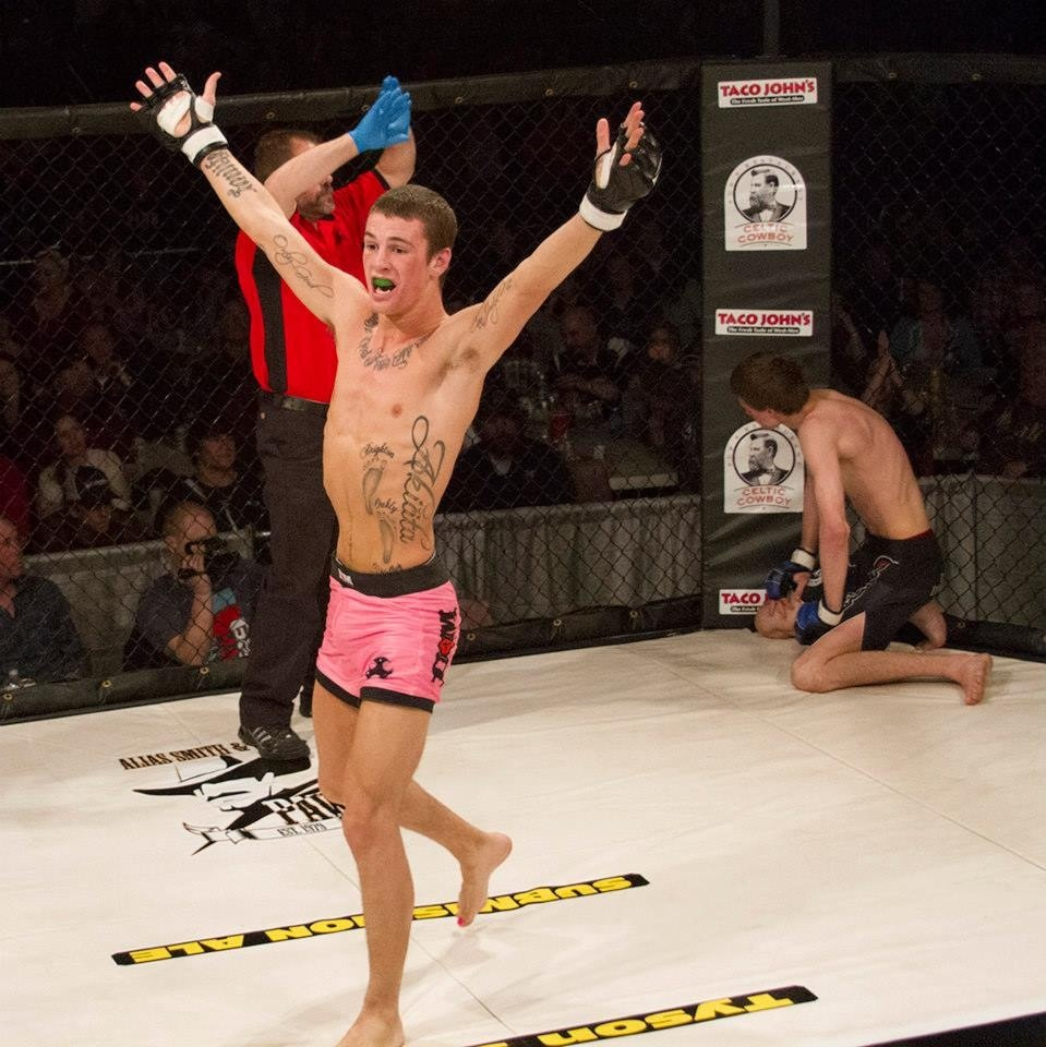 Sean O'malley defending his 135 pound belt at ICF